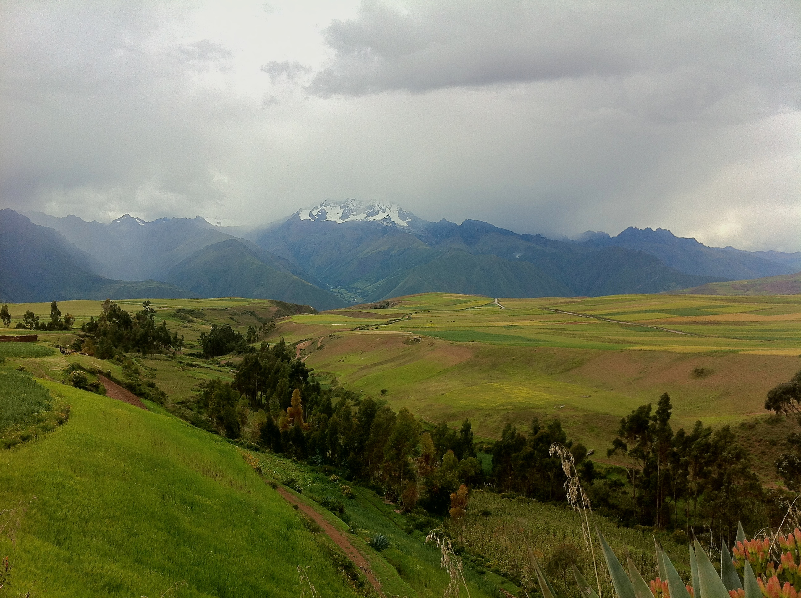 Bussing out of Cusco to the lush Sacred Valley, full of fields, farms and rugged hilly terrain. Standing behind shrouded in clouds is 5770m Sawasiray mountain.